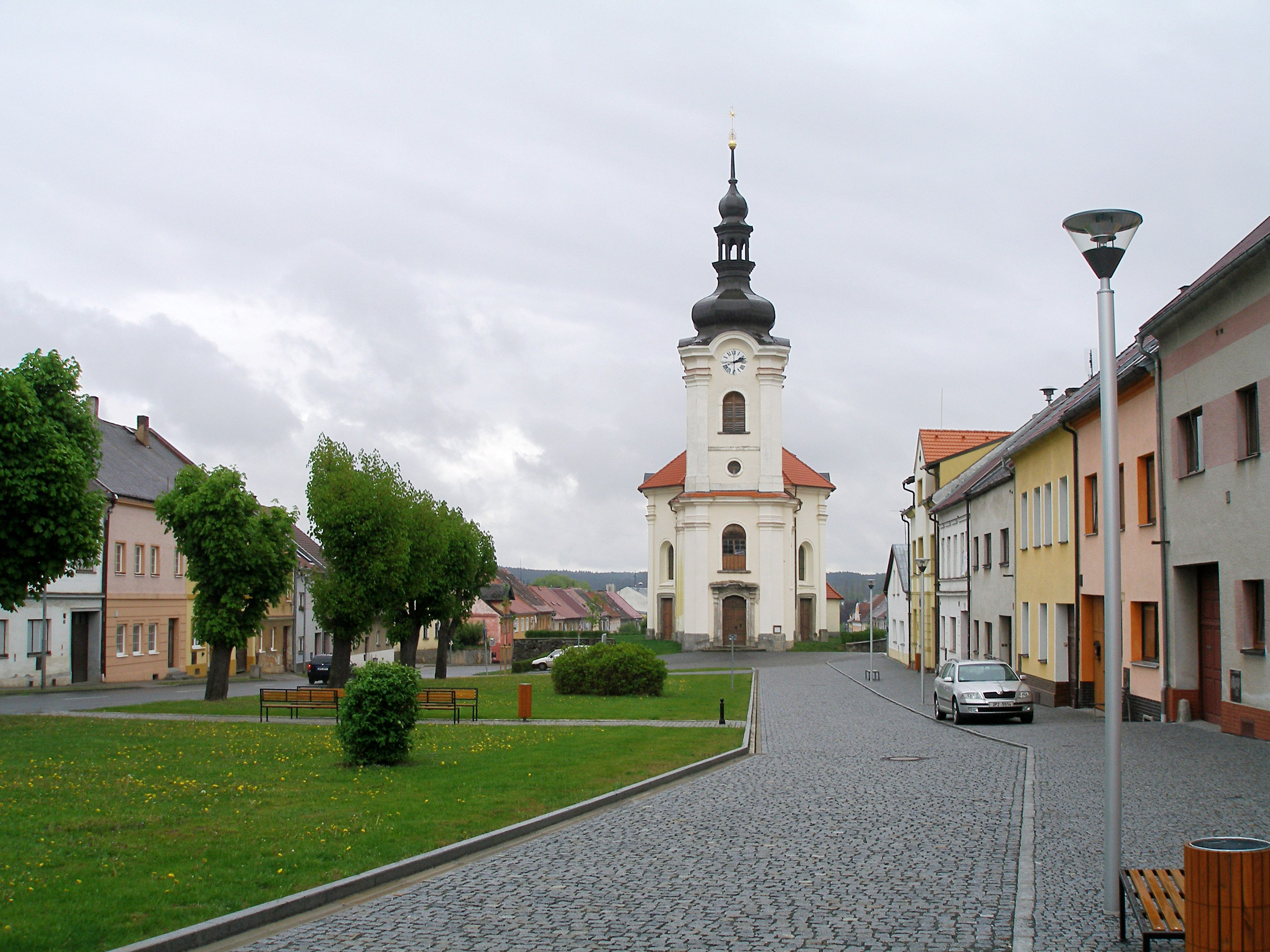 Černošín - the 1th May square with the Saint George church